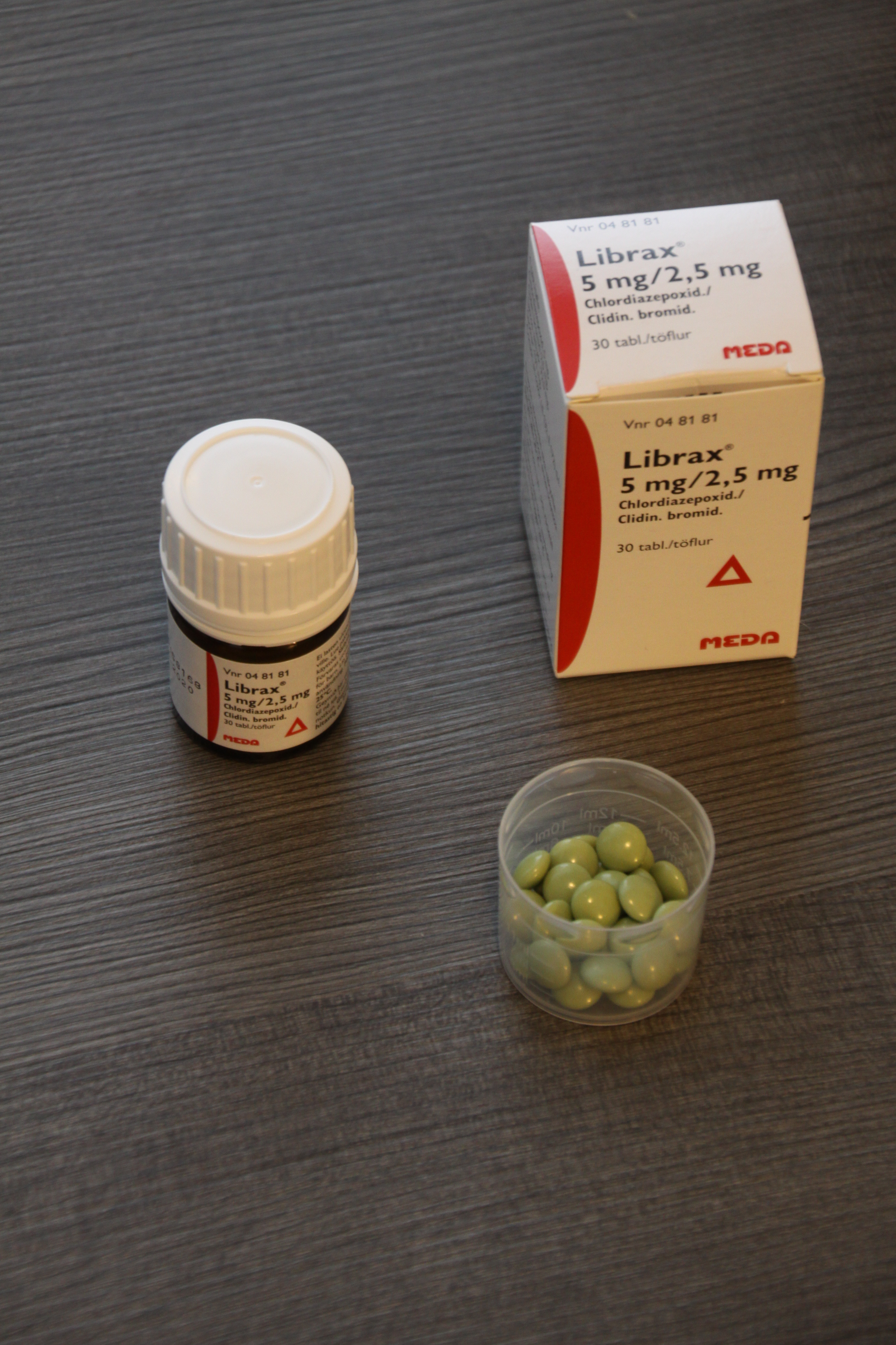 Librax tablets and package.